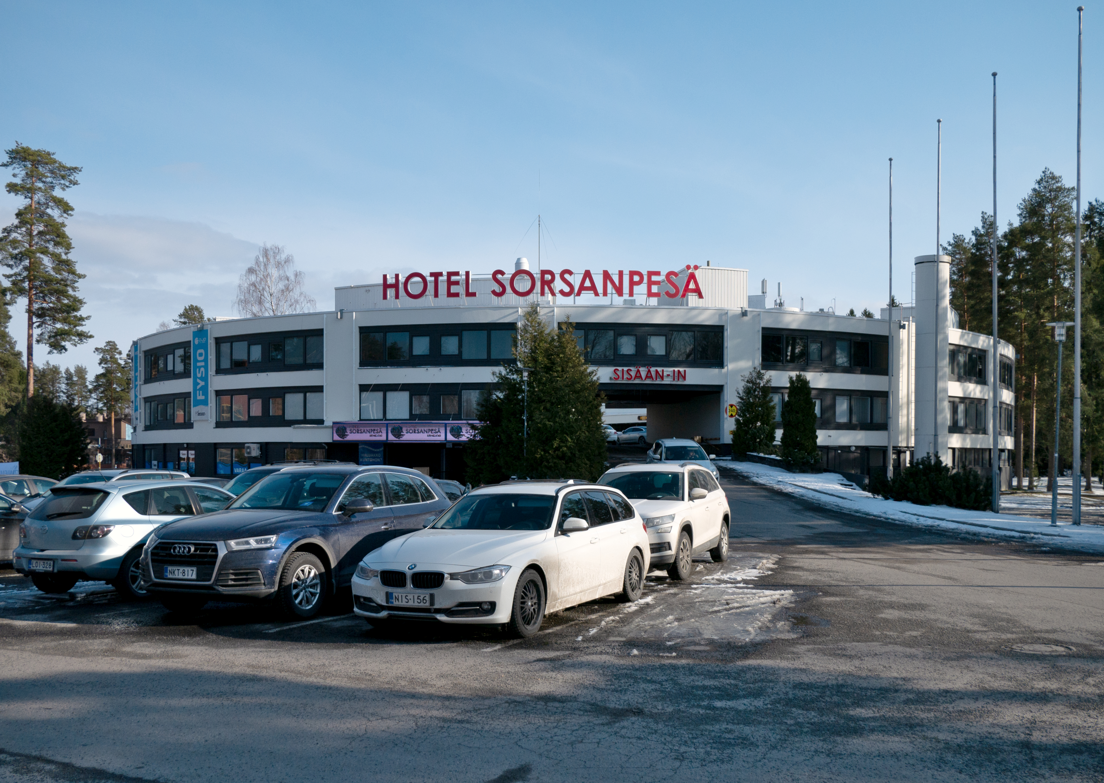 Hotel Sorsanpesä in Seinäjoki, Finland.